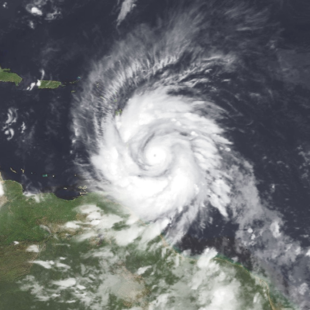 Hurricane Allen as a strong Category 3 hurricane near the Windward Islands on August 4, 1980